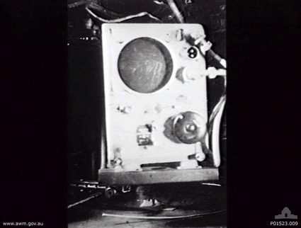 FOULSHAM, ENGLAND. 1945-04. A GEE NAVIGATION RECEIVER IN A HANDLEY PAGE HALIFAX AIRCRAFT OF NO. 462 SQUADRON RAAF.